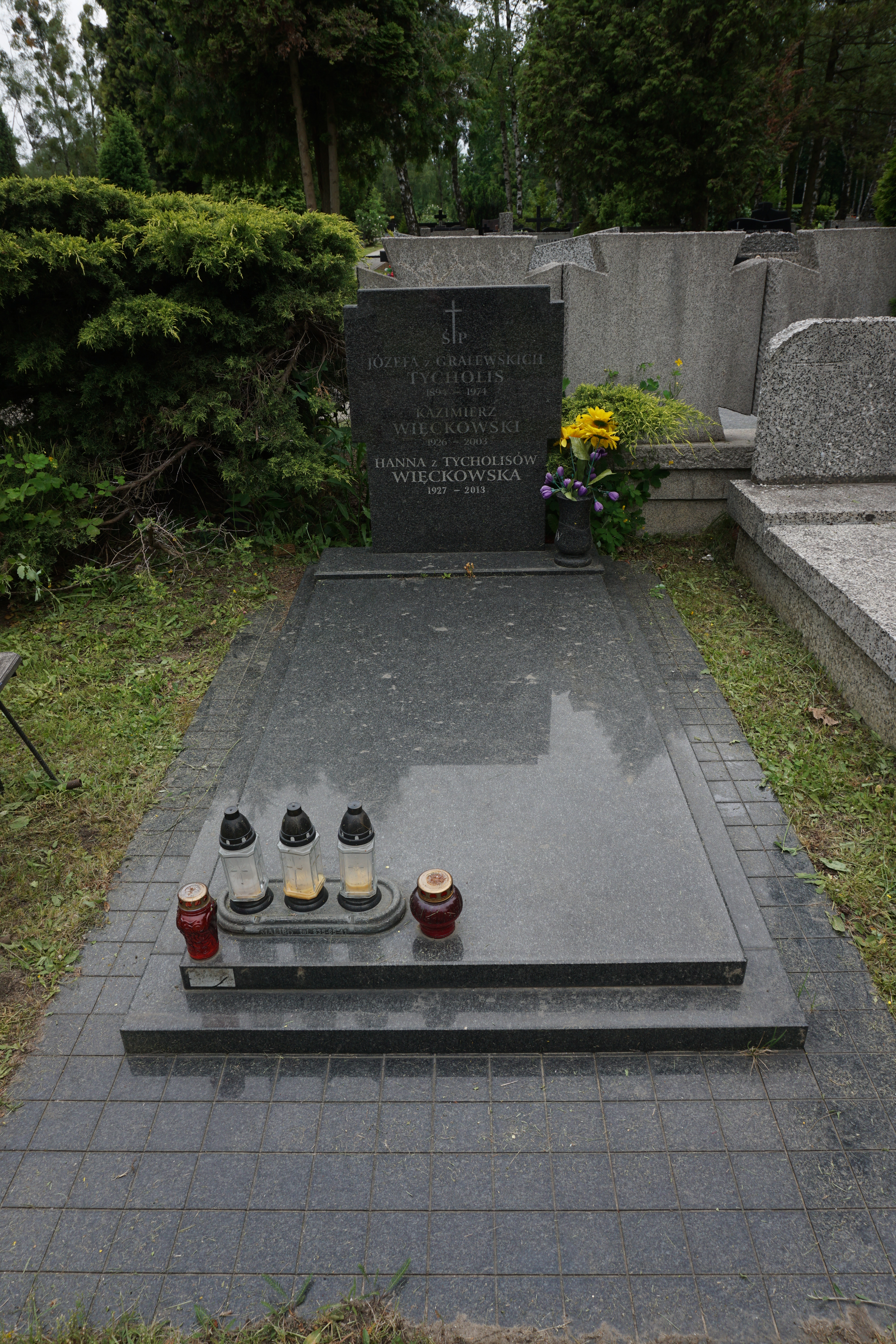 The grave of Hanna Więckowska at the North Municipal Cemetery in Warsaw (section E-XII-3, row 1, grave 10)